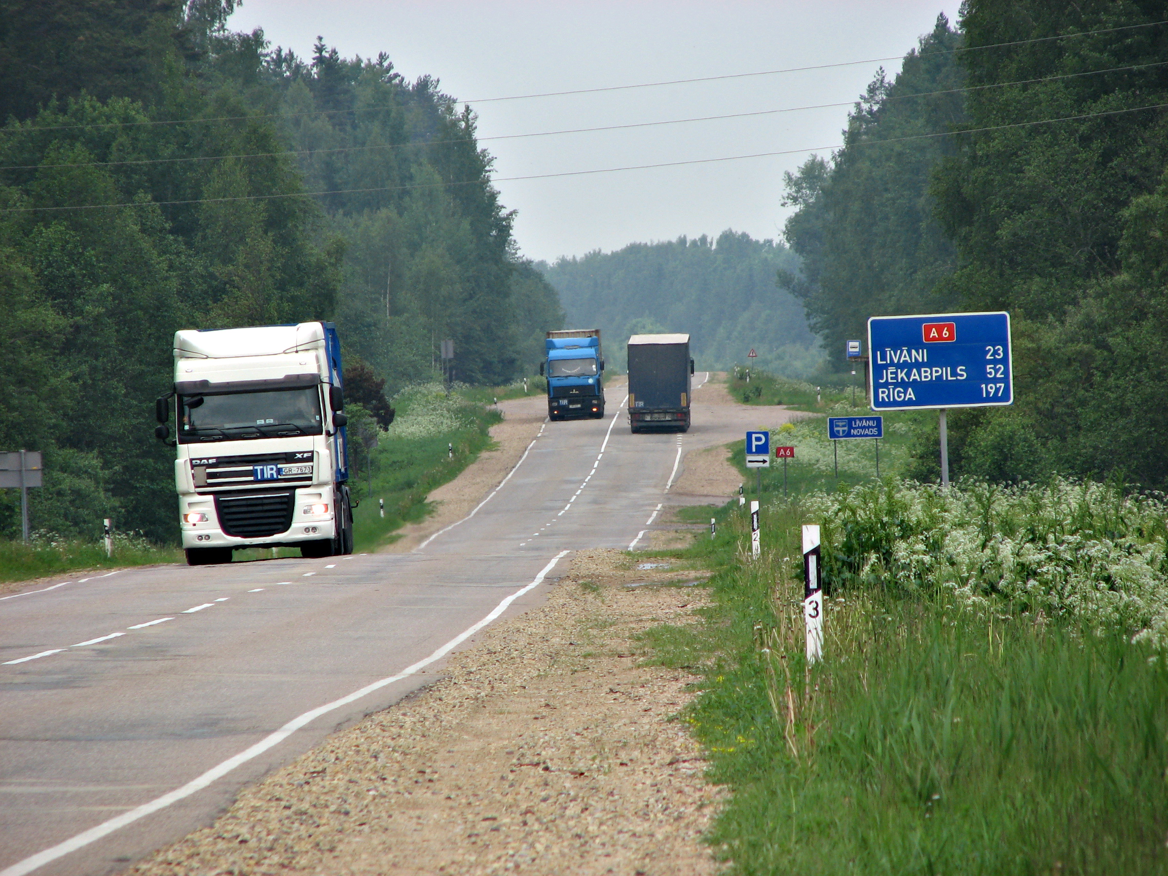 Road transport on the Latvian highway A6 at the border of the Daugavpils and Līvāni municipalities